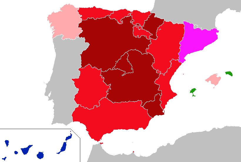 Bullfighting in Spain in 2015ː Bullfighting banned. Bullfighting legal, but traditionally not practiced. Bullfighting banned, but other spectacles involving cattle protected by law. Bullfighting legal, but banned in some places. Bullfighting legal. Bullfighting legal and protected by law (declared as Cultural Interest or Intangible Cultural Heritage).